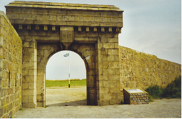 Torry Point Battery. The 19th Century battery was sited overlooking the North Sea and entrance to Aberdeen Harbour as a defence against a possible French invasion. The date above the arch reads 1860.